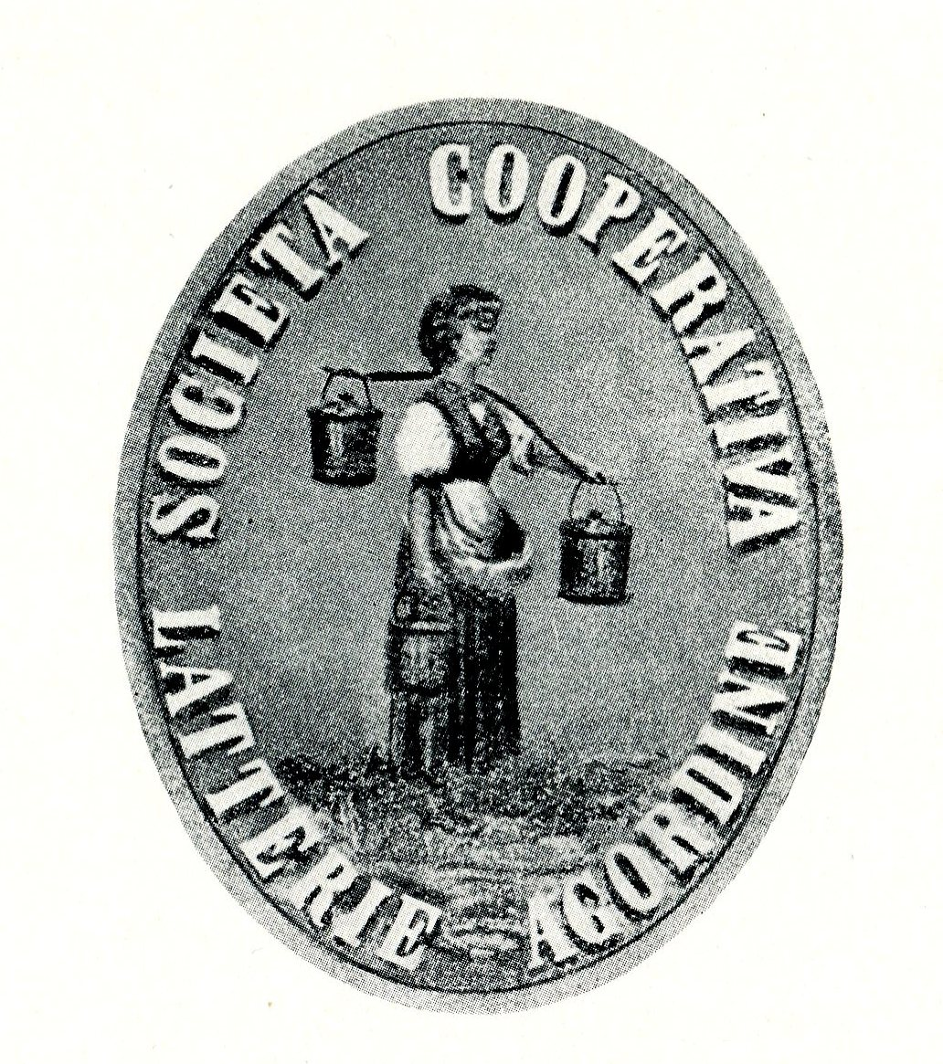 The emblem of the Società Cooperativa Latterie Agordine.